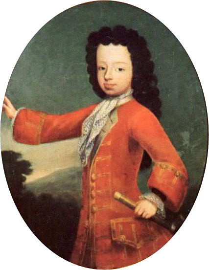 Portrait of Victor Amadeus, Prince of Piedmont (1699-1715), the heir to the Duchy of Savoy and then Kingdom of Sicily. He acted as regent for his father in 1713-4.